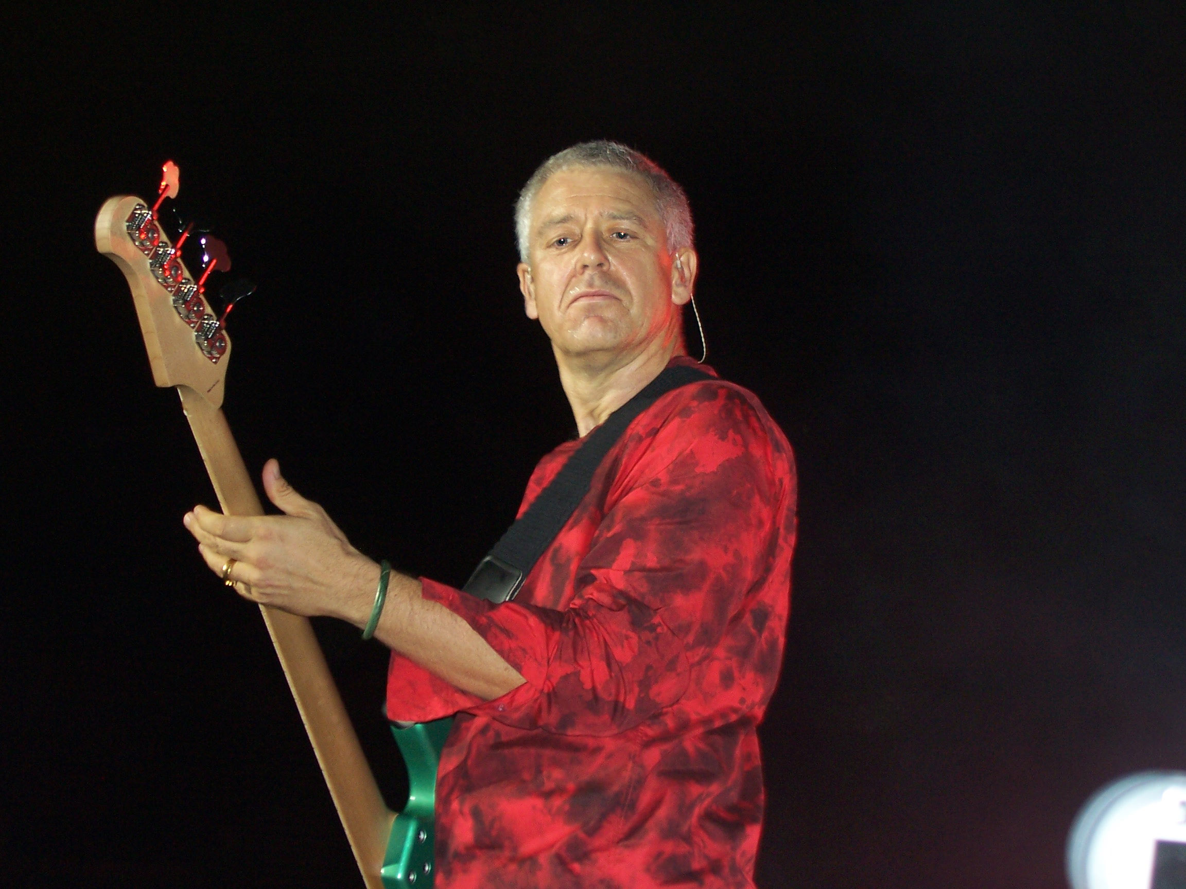 Adam Clayton from U2 on 21 February, 2006, in São Paulo, Brazil.